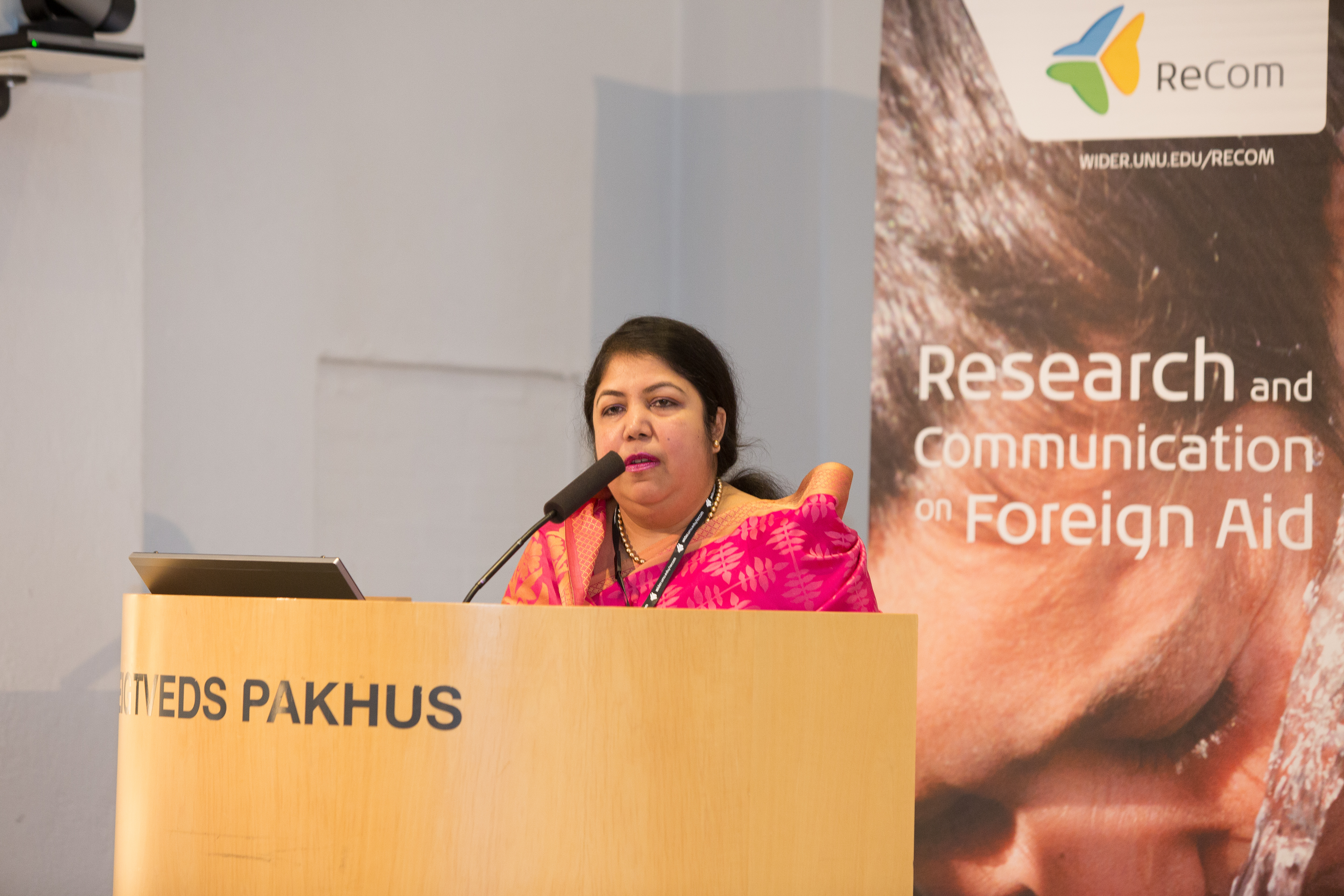 Shirin Sharmin Chaudhury, the speaker of the Parliament of Bangladesh, speaks at ReCom results meeting: Aid for Gender Equality, Copenhagen, Denmark